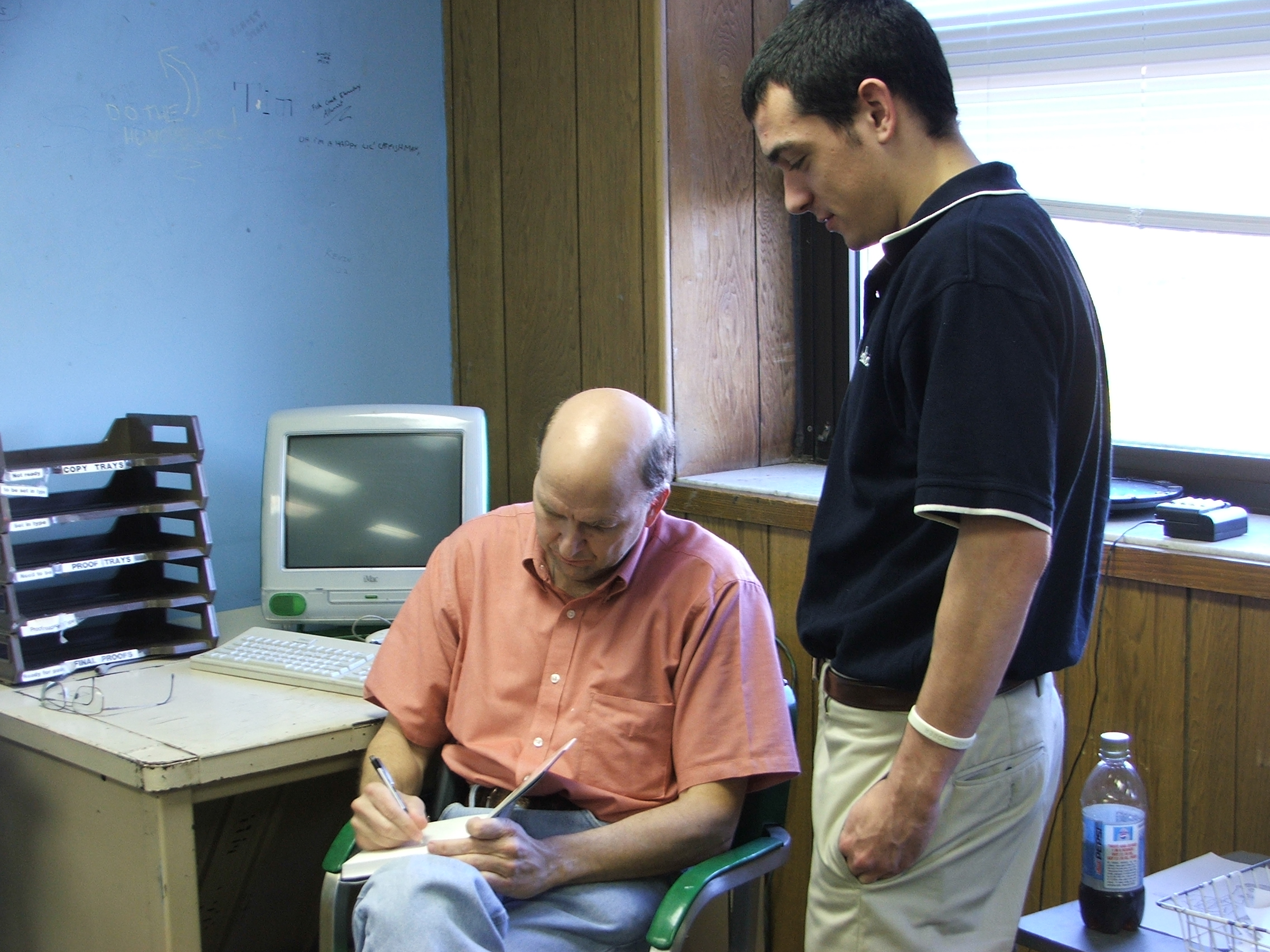 signing book